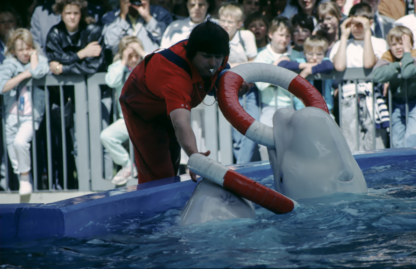 Belugas at Zoo Duisburg - 1980s